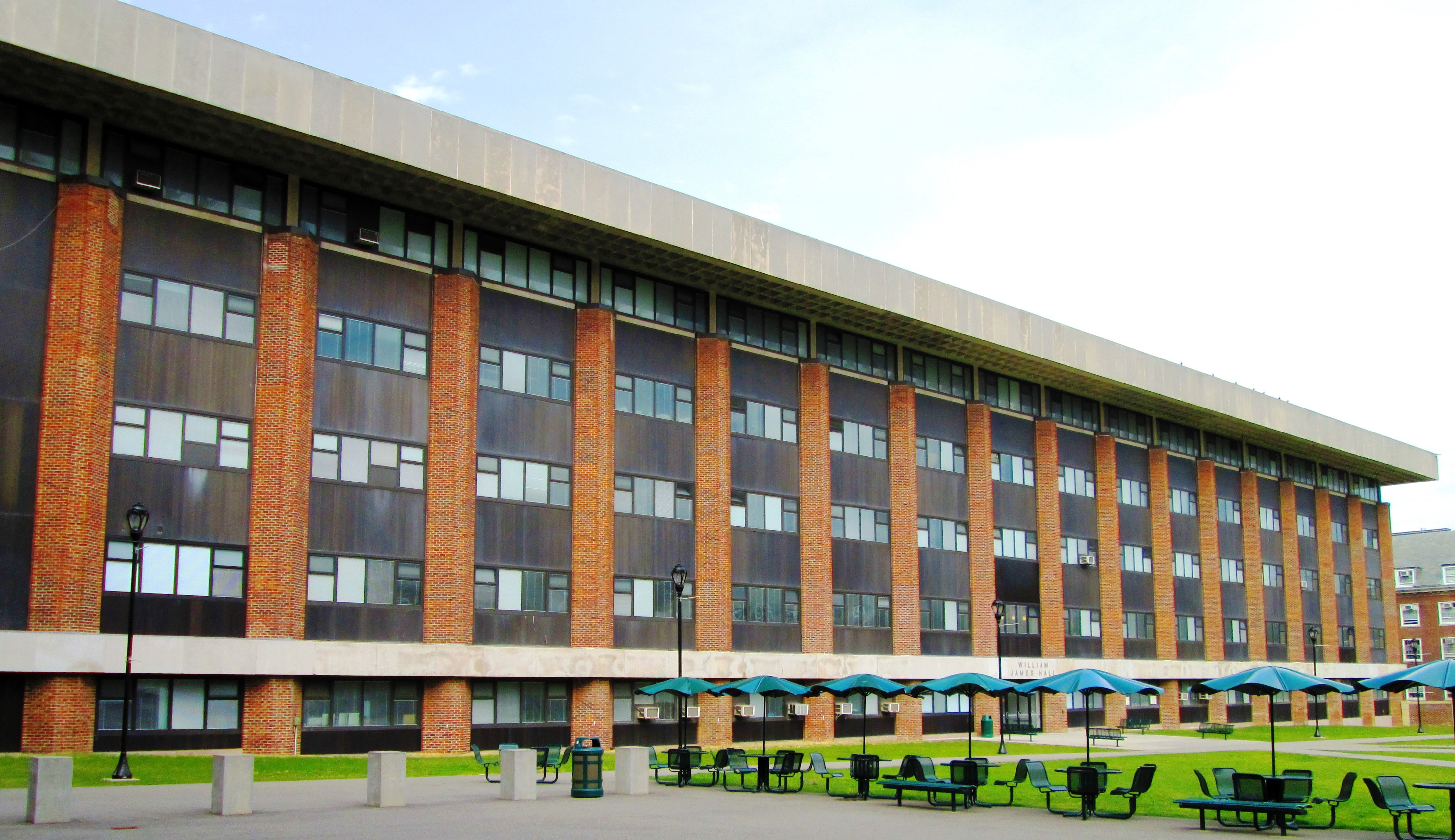 Brooklyn College is a senior college of the City University of New York, located in the Midwood neighborhood of Brooklyn, New York City. The origin of Brooklyn College occurred in 1910 with the establishment of an extension division of the City College for Teachers. The school then began offer evening classes for first-year male college students in 1917. In 1930 by the New York City Board of Higher Education, the College authorized the combination of the Downtown Brooklyn branches of Hunter College – at that time a women's college – and the City College of New York – a men's college – both of which had established been in 1926. With the merger of these branches, Brooklyn College became the first public coeducational liberal arts college in New York City. The college's 26-acre (110,000 m2) campus is known for its beauty, and is often regarded as "the poor man's Harvard" because of its low tuition and reputation for respectable academics. The master designer of the original Georgian style campus, now known as the "East Quad", was Randolph Evans.